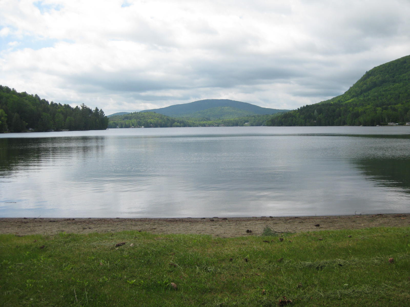 Harvey's Lake, Vermont, United States